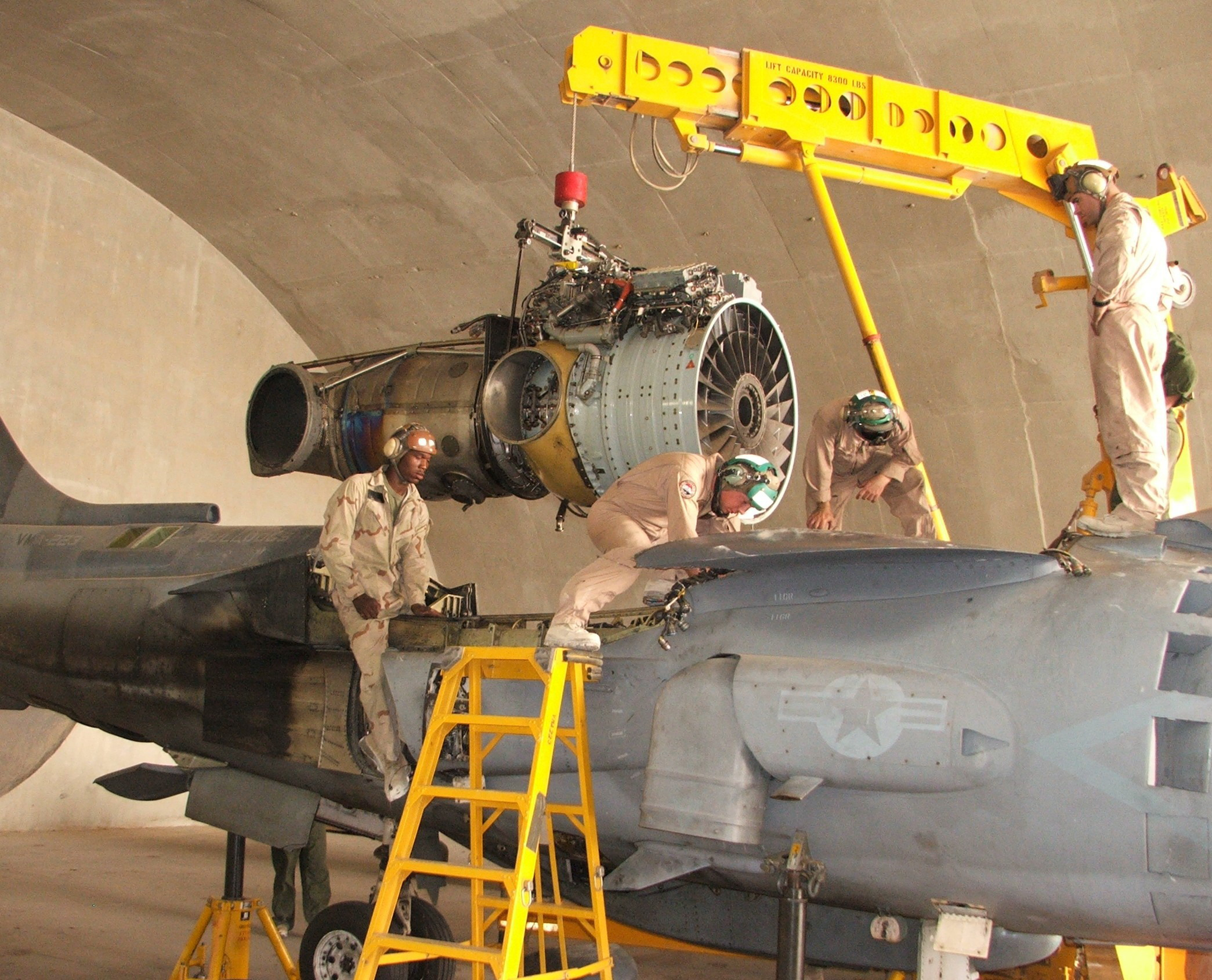 Marines with Attack Squadron 223, Marine Aircraft Group 16 (Reinforced), 3rd Marine Aircraft Wing, change the engine on an AV-8B Harrier. Beneath a clear moonlit sky, the Bulldogs made history Feb. 10, setting a new record of 60,000 Class A mishap-free hours flown by a Harrier squadron. The squadron has been forward deployed to Iraq since August 2005.